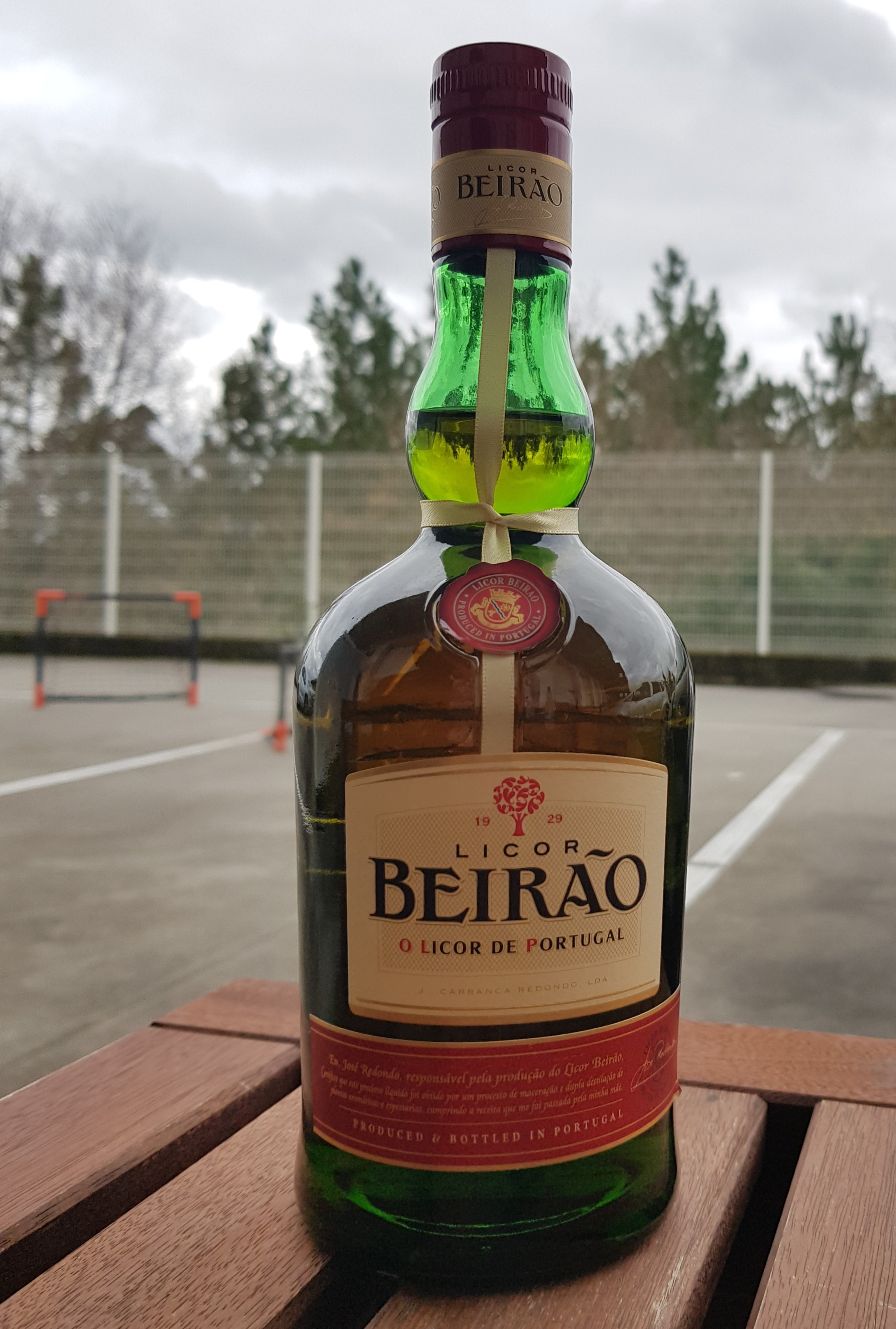 Portuguese-made bottle of traditional Licor Beirão liqueur, from the Beira region.